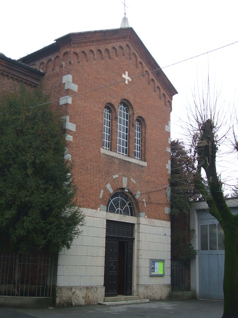 Chiesa dell'Addolorata